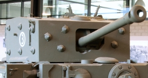 QF 75 mm gun on a Cromwell tank at Marshallmuseum - Liberty Park - Oorlogsmuseum Overloon, The Netherlands.